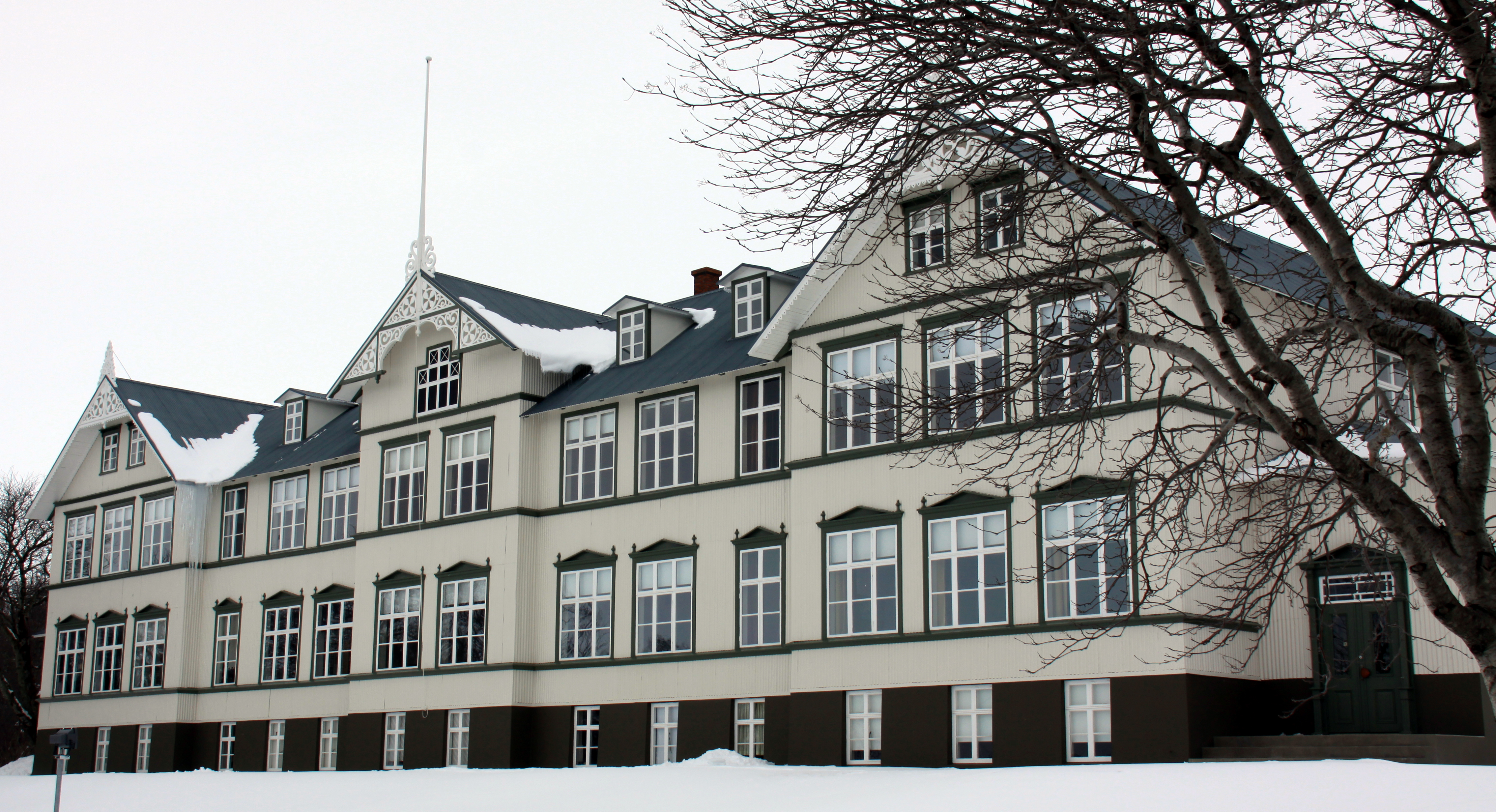 The Old Building (Gamli Skóli) of the High School (Menntaskóli) in Akureyri